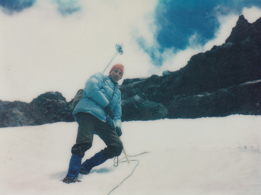 Climber Hermann Hess 1990